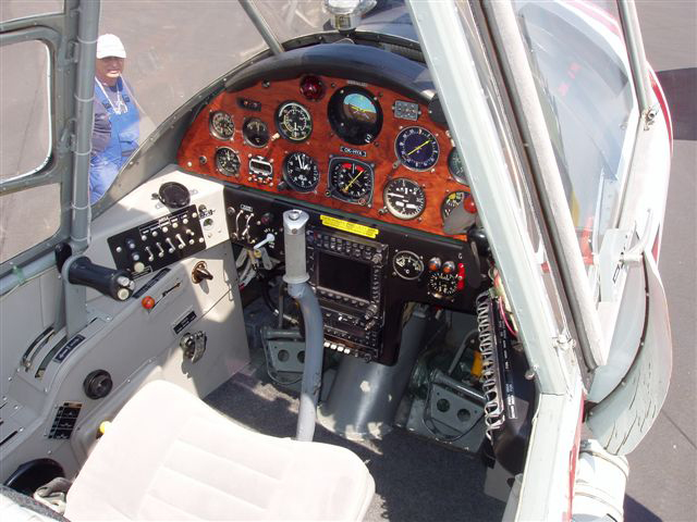 John Richards Private Collection No restriction on use.